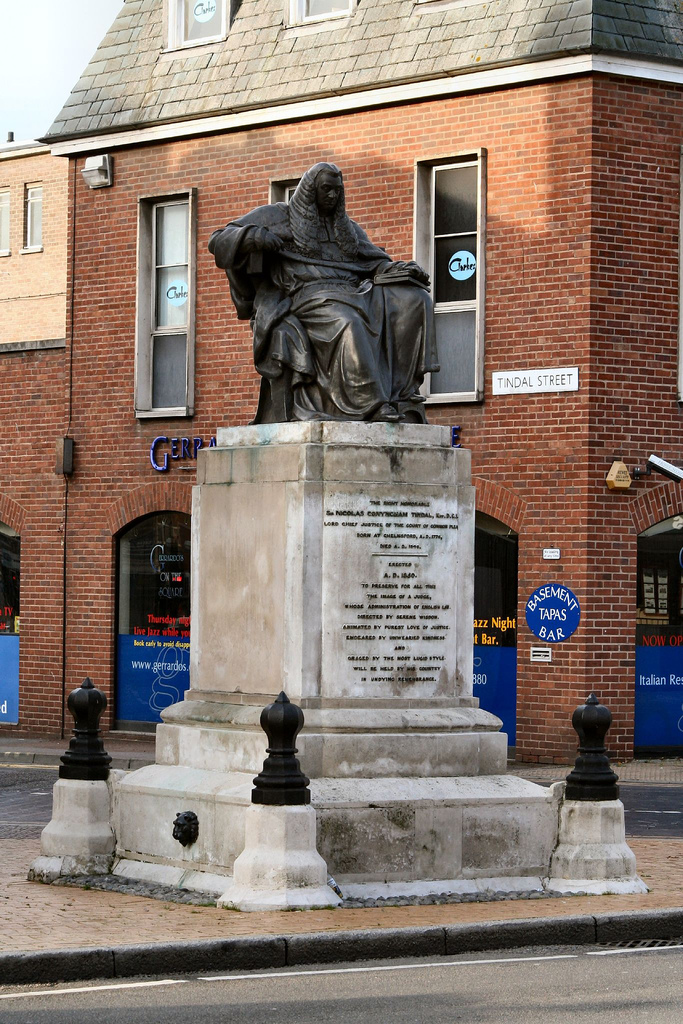 judge tindals statue in tindal square chelmsford alonside tindal street.